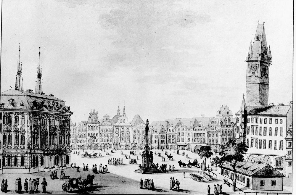 Historical picture of Old Town Square in Prague, now the Czech Republic, with the Marian column, which was destroyed in 1918 as a symbol of Habsburg Monarchy. Česky: Historický obrázek Staroměstského náměstí v Praze, s Mariánským sloupem, který byl jako symbol Habsburské monarchie stržen roku 1918.